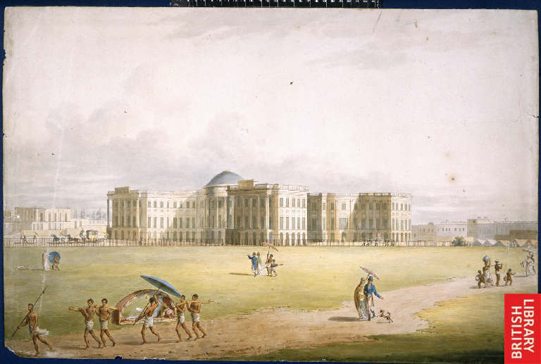 A south-east view of Government House, Calcutta. A European is being carried in a palanquin, while other Europeans, attended by servants, stroll on the grass and exercise their dogs. Watercolour.